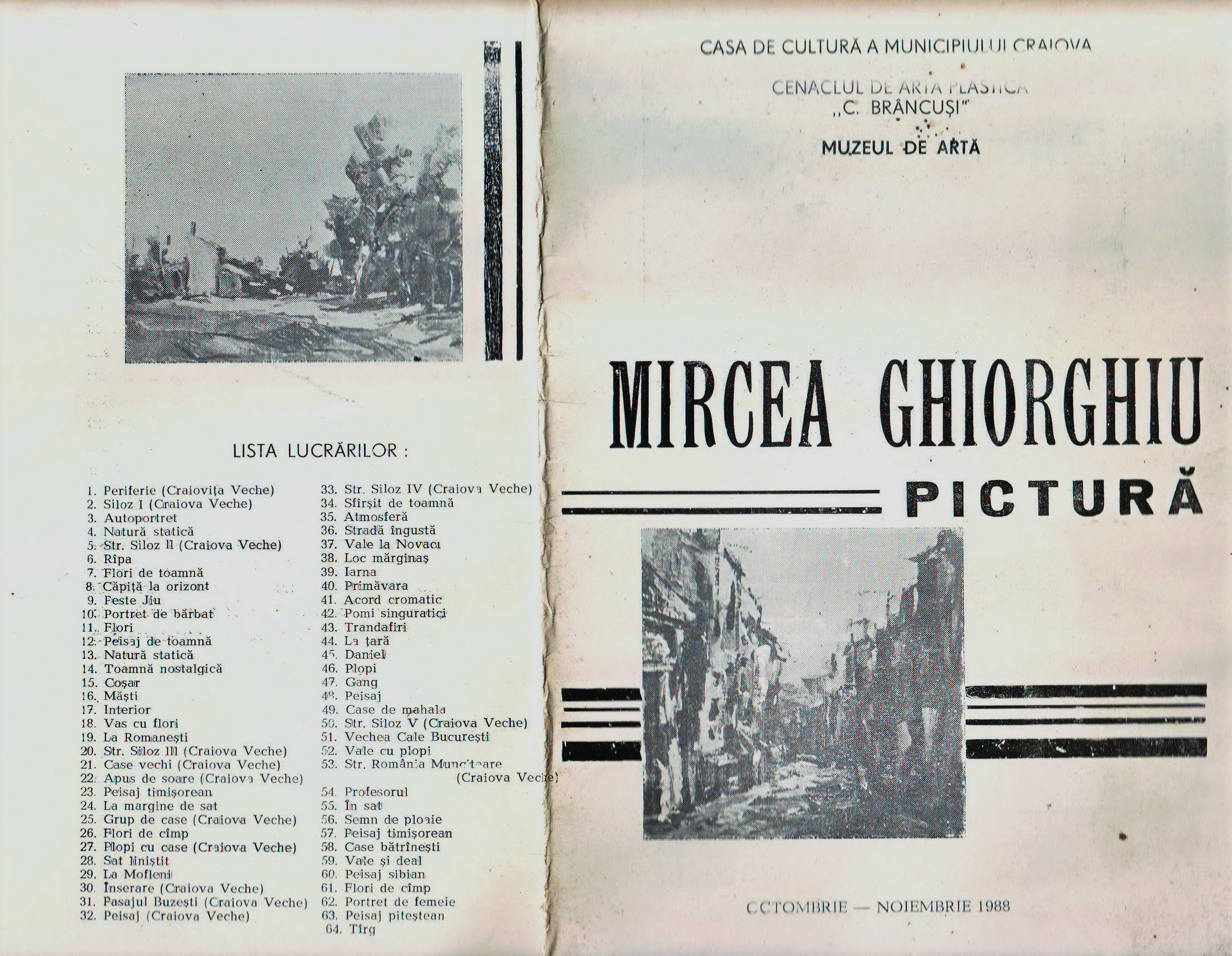 Painting Exhibition Catalogue Mircea Ghiorghiu in October-November 1988 from the Art Museum of Craiova